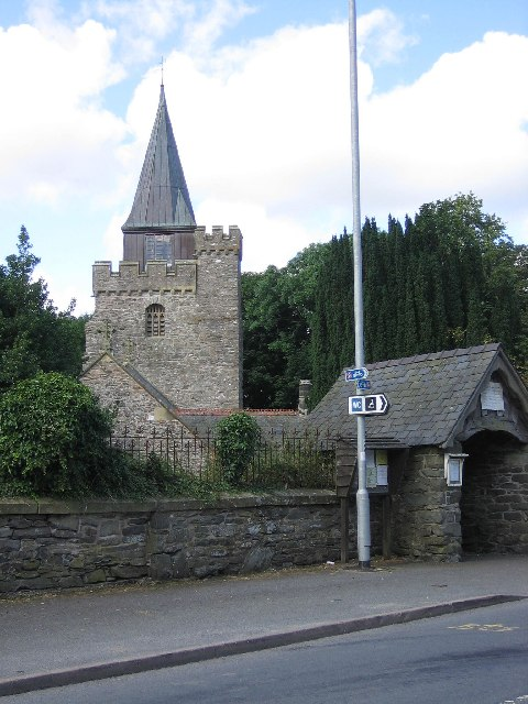 Church, Llangurig. This large church is set back from a busy road.